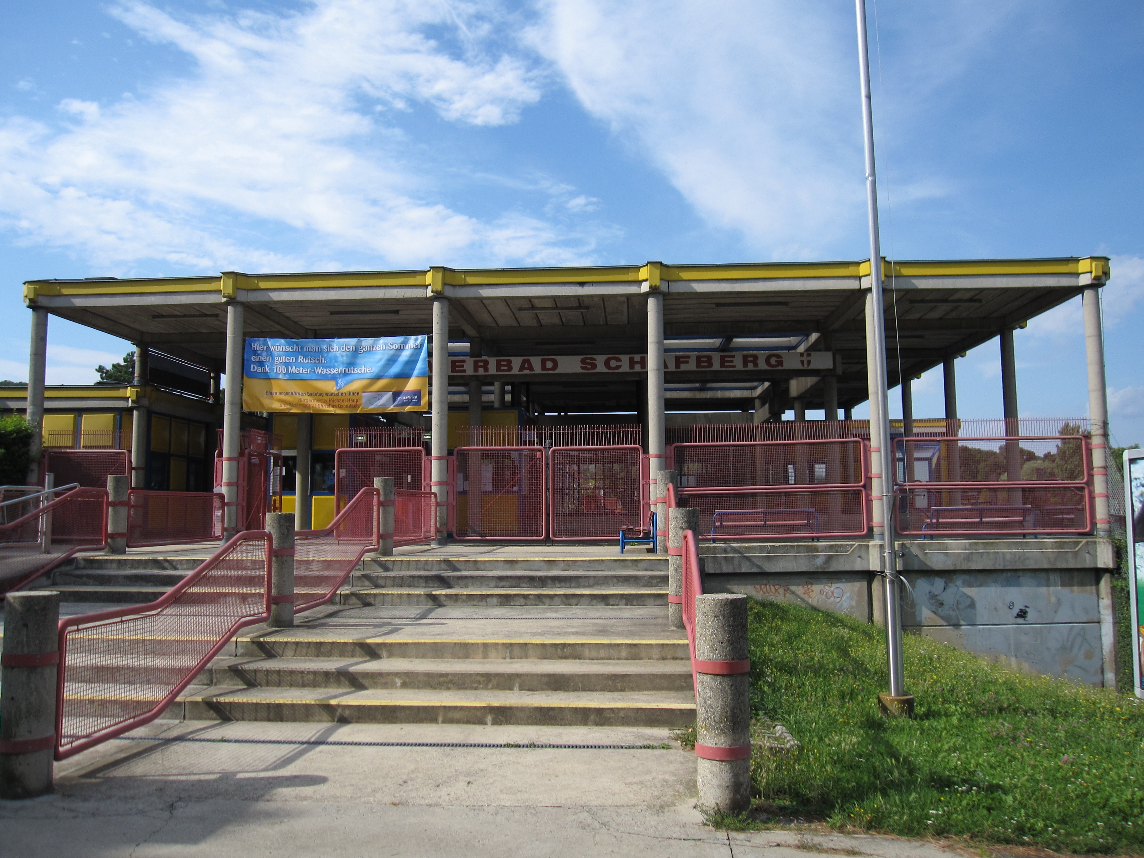 Schafbergbad in Währing., Vienna.